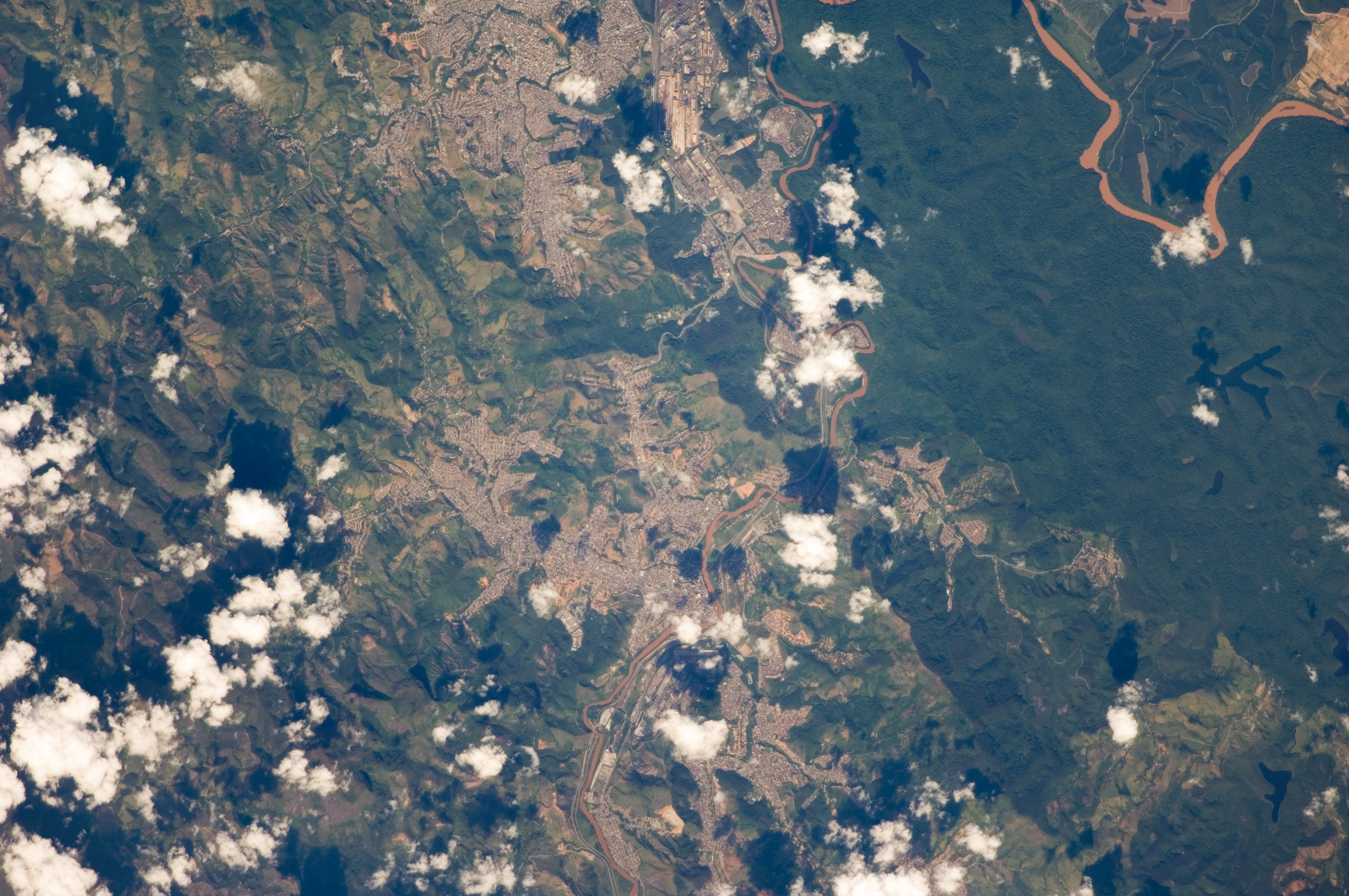 Landast of Coronel Fabriciano, Ipatinga and Timóteo, Minas Gerais, Brazil.